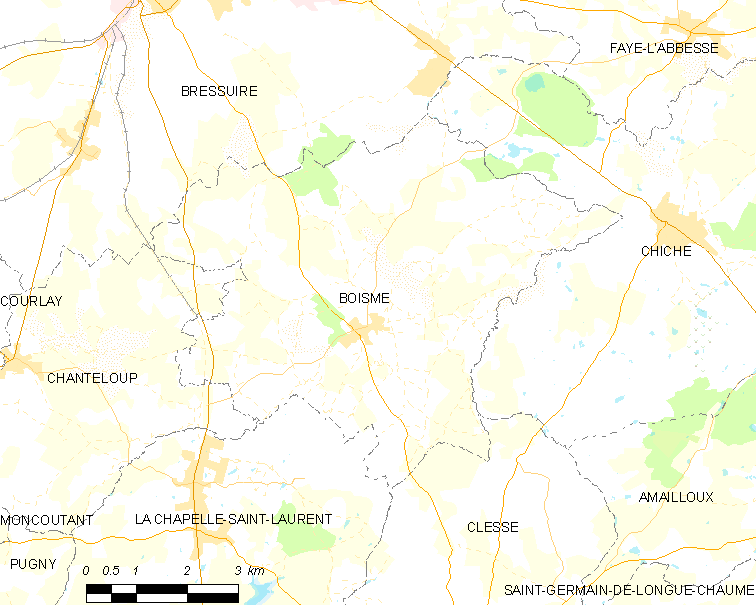 Map of French municipality Boismé